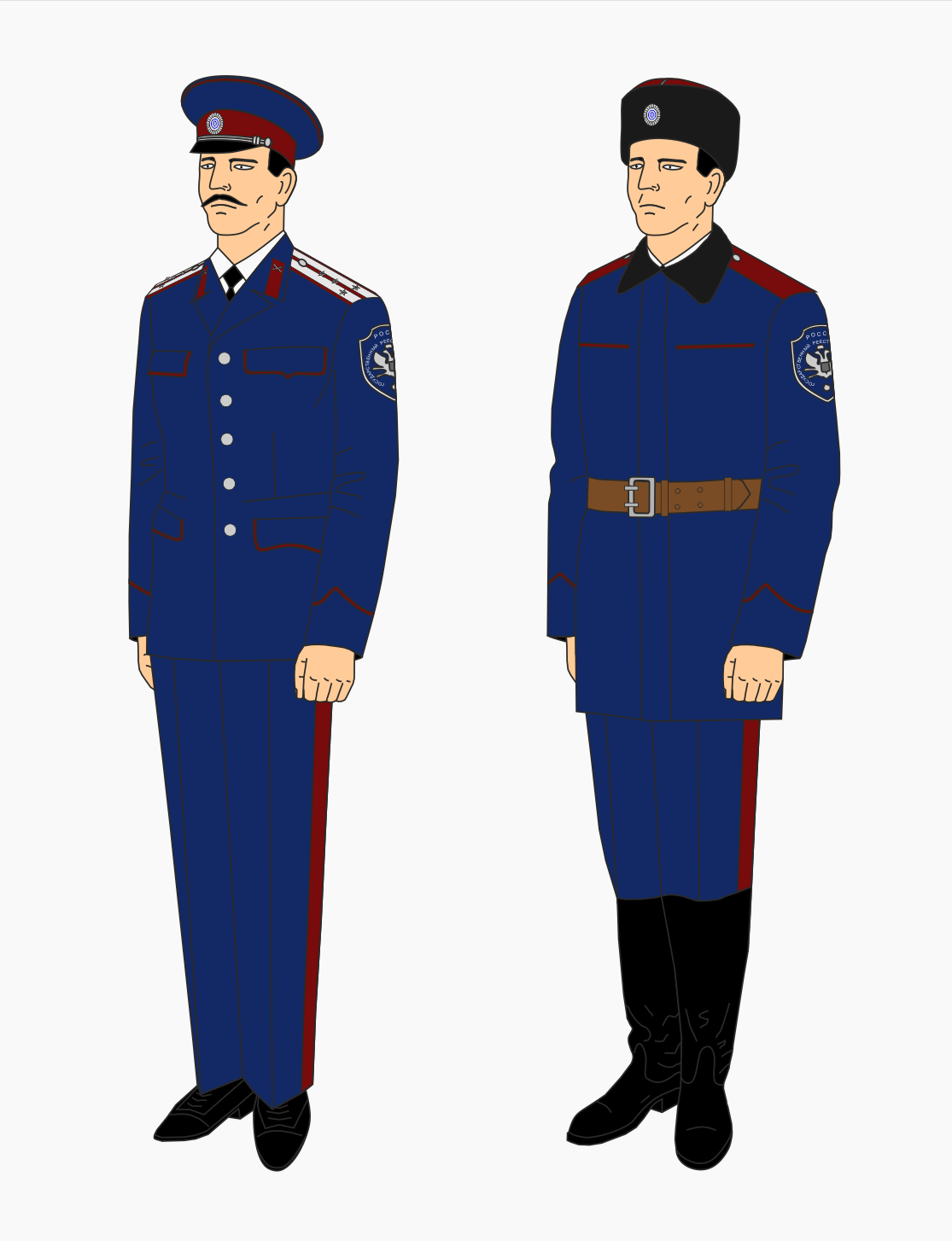 Центральное казачье войско (повседневная форма казаков)